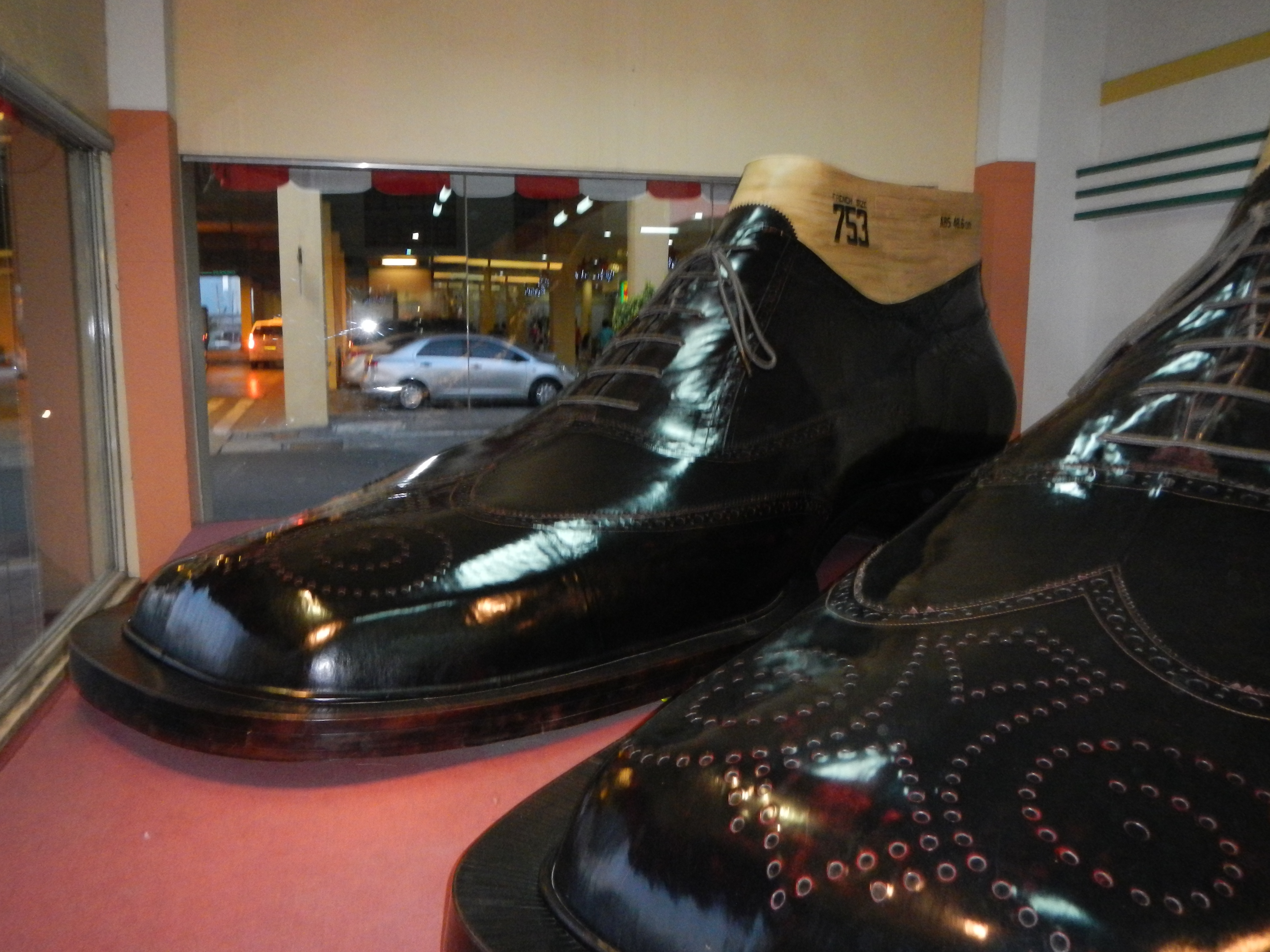 Upload Wizard photos of Marikina City [1] -- Shoe Capital of the Philippines - Marikina Sports Park, Riverbanks Center[2], including the Riverbank Mall, the Marikina City skyline, Marcos Highway,[3] Roman Garden at Marikina River[4] Park - Riverbanks Marikina a mall and office complex located off of Andres Bonifacio Avenue, Barangay Barangka, Marikina [5]City, near the Marcos Bridge over the Marikina River - world's largest pair of shoes are on display at Riverbank Center. 5.29 metres (17.4 ft) long and 2.37 metres (7.9 ft) wide, equivalent to a French shoe size of 753, they were created over 77 days between August 5 and October 21, 2002 by Marikina City shoe industry businesspeople.